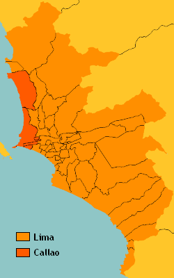 Map of the Lima & Callao Metro Area Created by User:StarbucksFreak - Apr. 2005